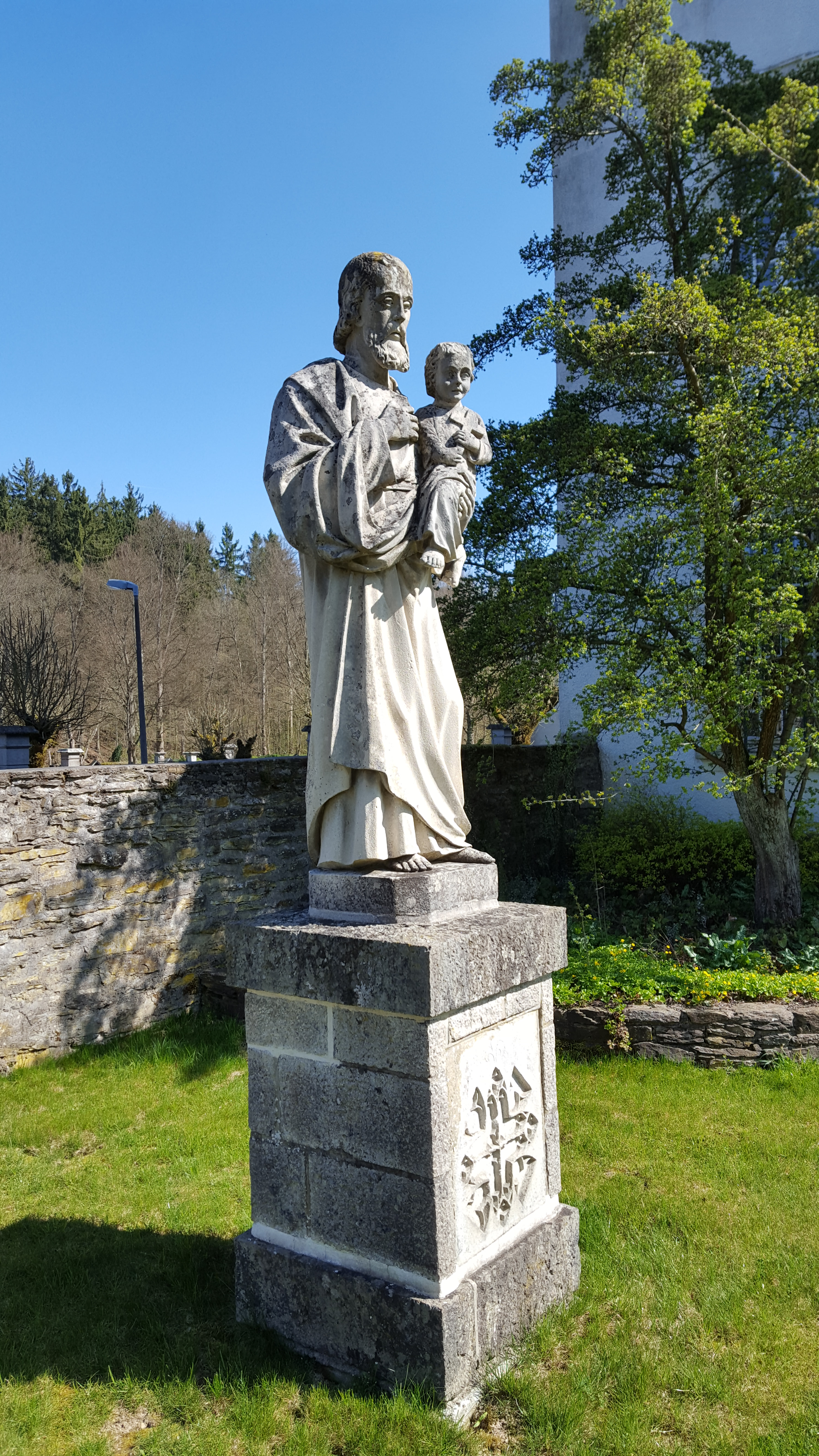 Josefsfigur mit dem Ableger des Dornbuschs der Gründungsgeschichte